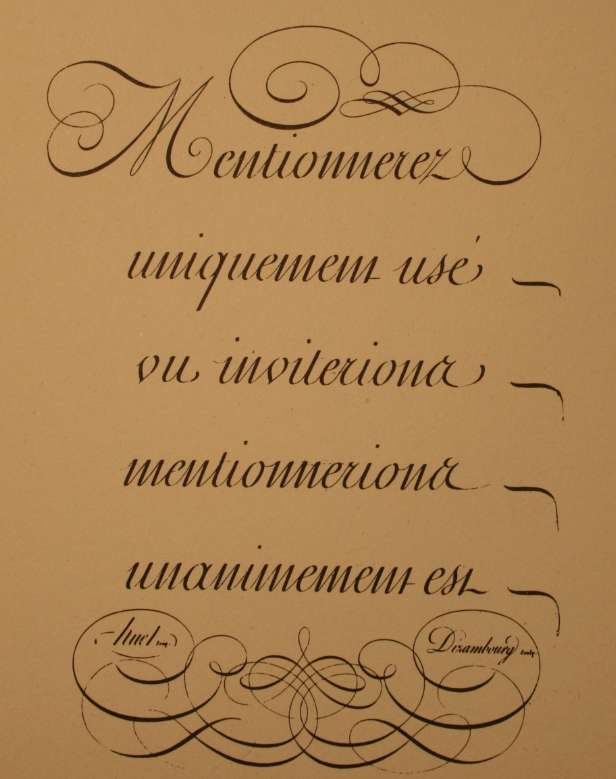 Huet de Tostes, Ecritures expédiées financières, c. 1800.